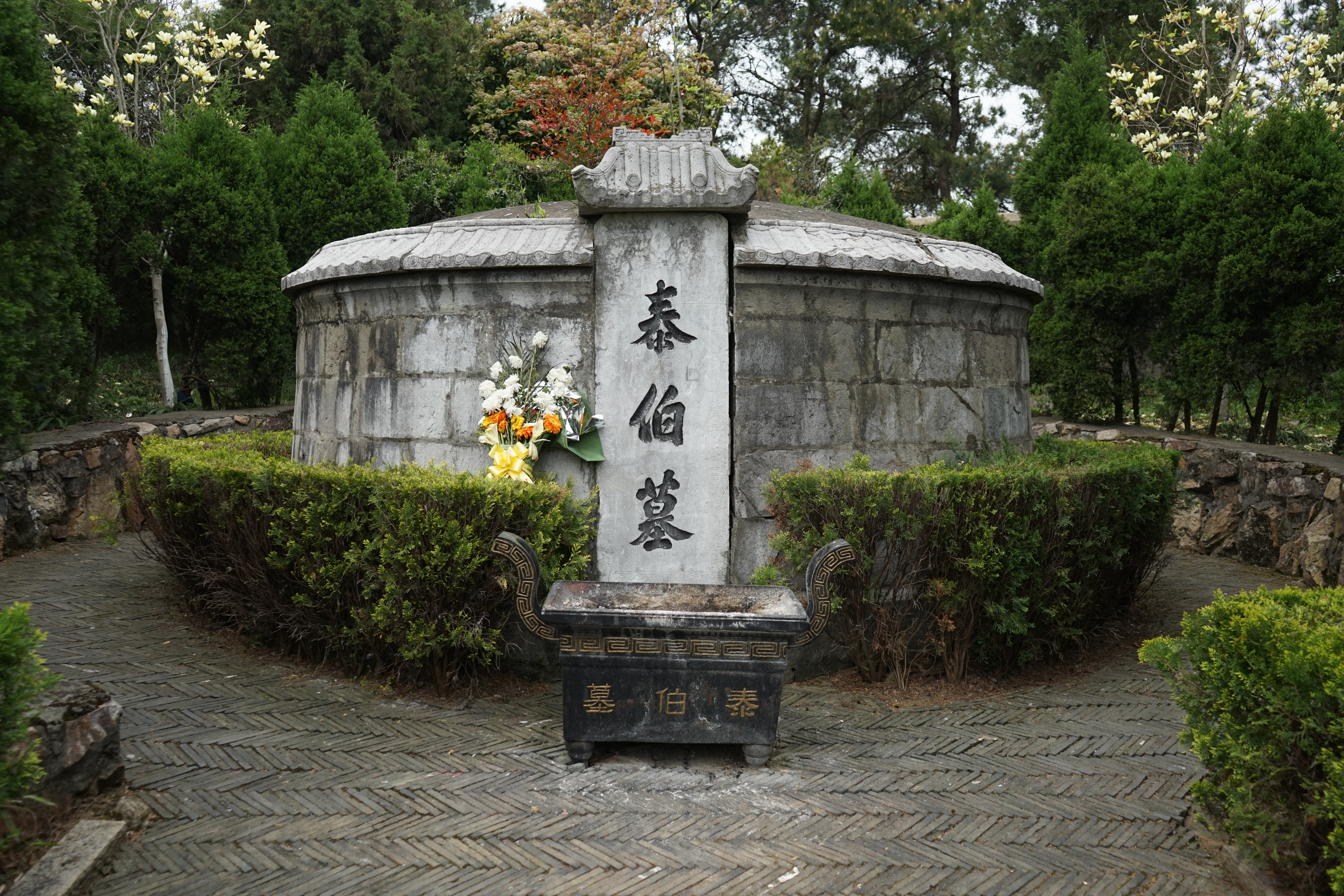 泰伯冢墓:the burial mound is encircled by blue stone covered with soil. It is said to be 4.6 meters high with a circumference of 35 paces"墓高一丈四尺，周三十五步"